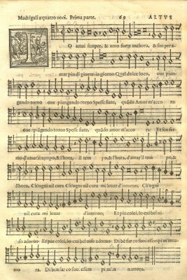 Music notation from Adrian Willaerts Musica Nova